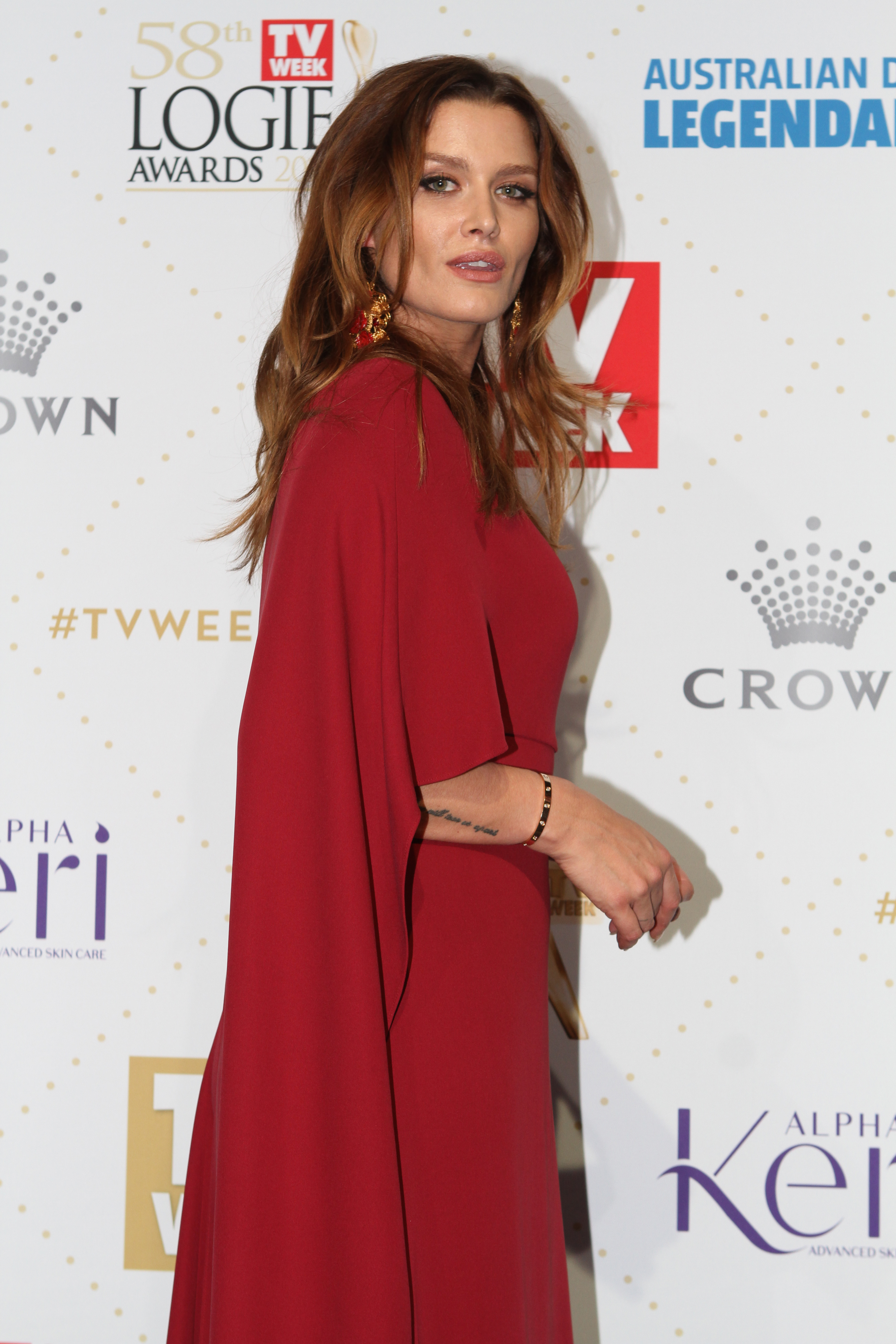 Cheyenne Tozzi arrives at the 58th Annual Logie Awards at Crown Palladium